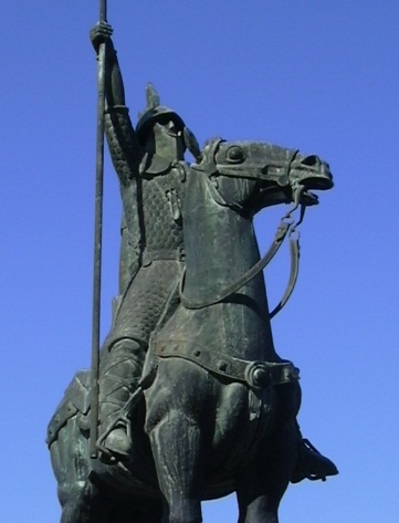 Statue of Vimara Peres [Oporto-Portugal]